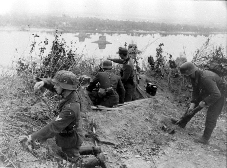 The Wehrmacht delivers fire across the Dnieper during the Battle of the Lower Dnieper in 1943.